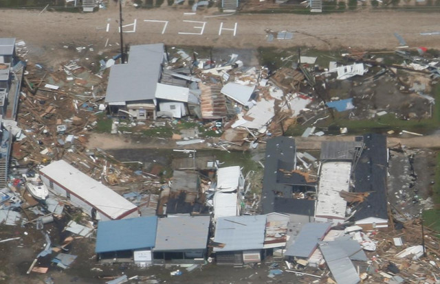 Air view of western end of Grand Isle, Louisiana, after Hurricane Katrina. Note "HELP" signs made from debris of smashed buildings.